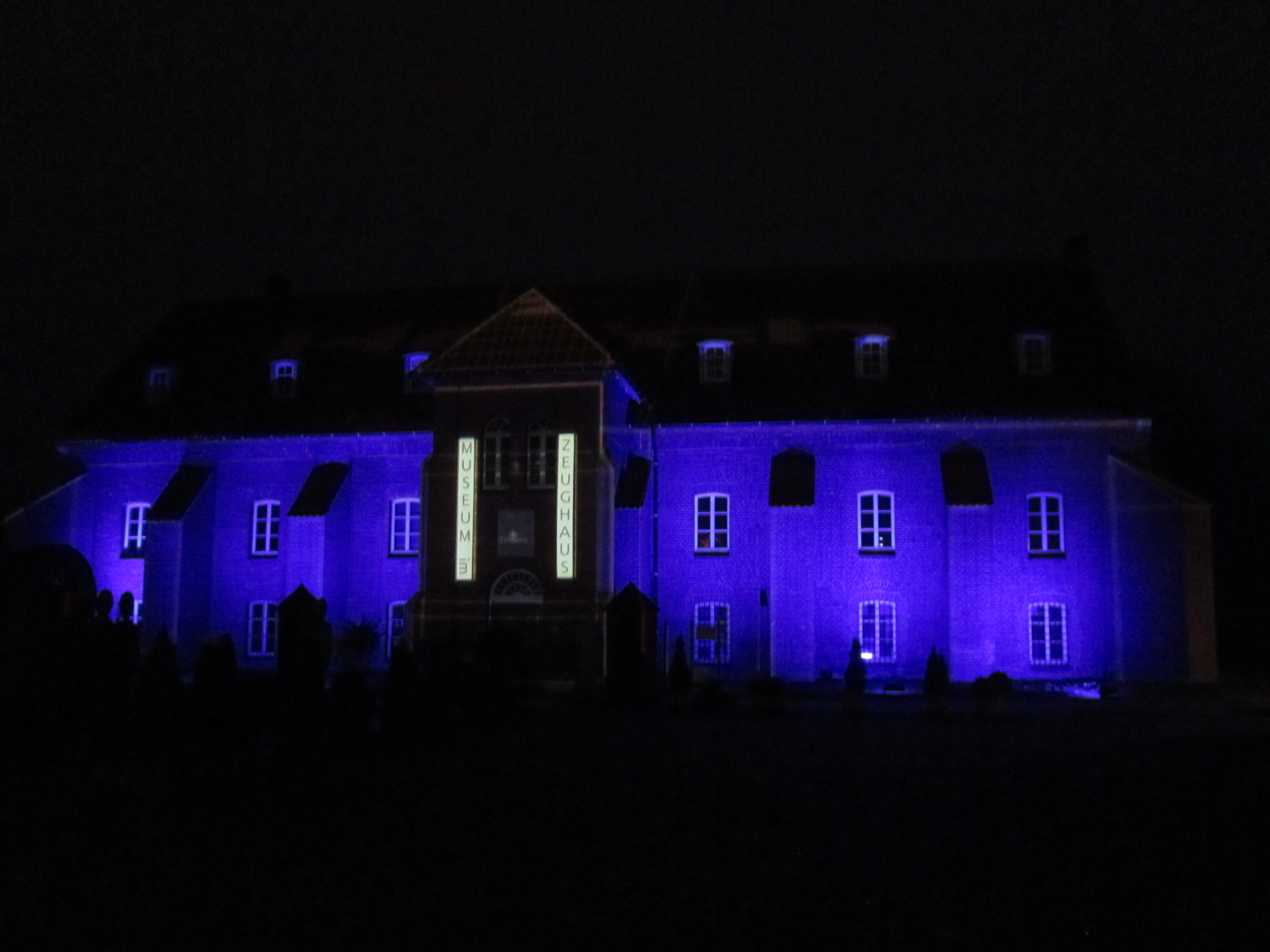 "Museum im Zeughaus" during the lightshow "Vechtaer Lichtertage 2015"